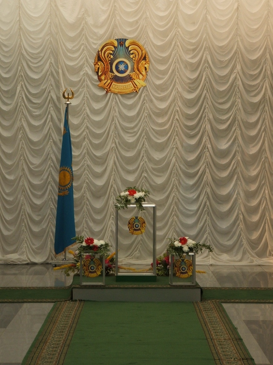 Ballot boxes in the polling place in the Congress Hall in Astana, Kazakhstan, set up for the 18 Aug. 2007 legislative election. The secondary ballot boxes are portable, used for mobile voting where pollworkers take the box to voters who cannot come to the polls.